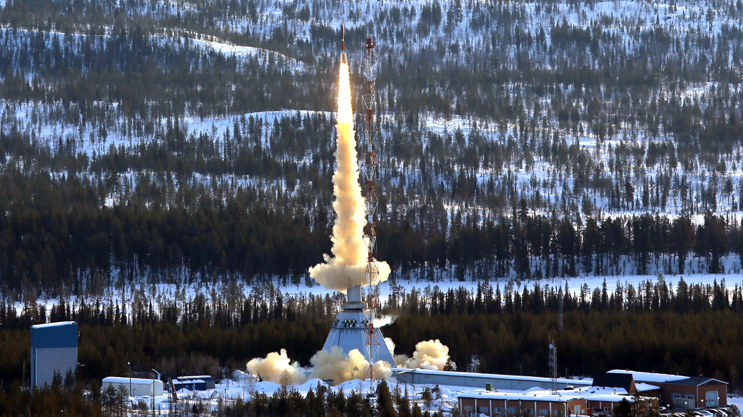 TEXUS 50 launched with a VSB-30 rocket.